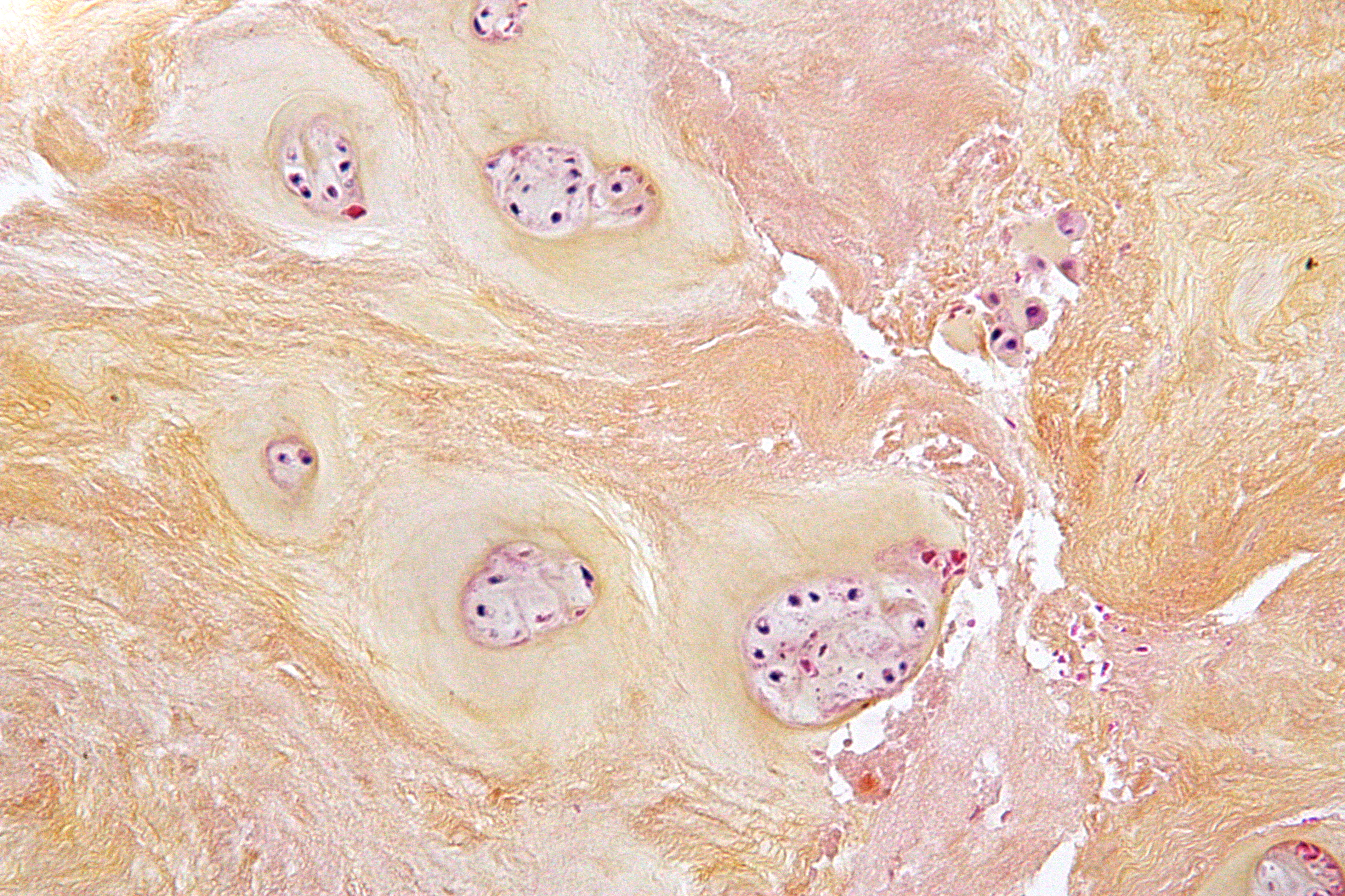 High magnification micrograph of degenerative (vertebral) disc disease showing fragment of degenerative fibrocartilage and clusters of chondrocytes. HPS stain. Related images Intermed. mag. High mag.